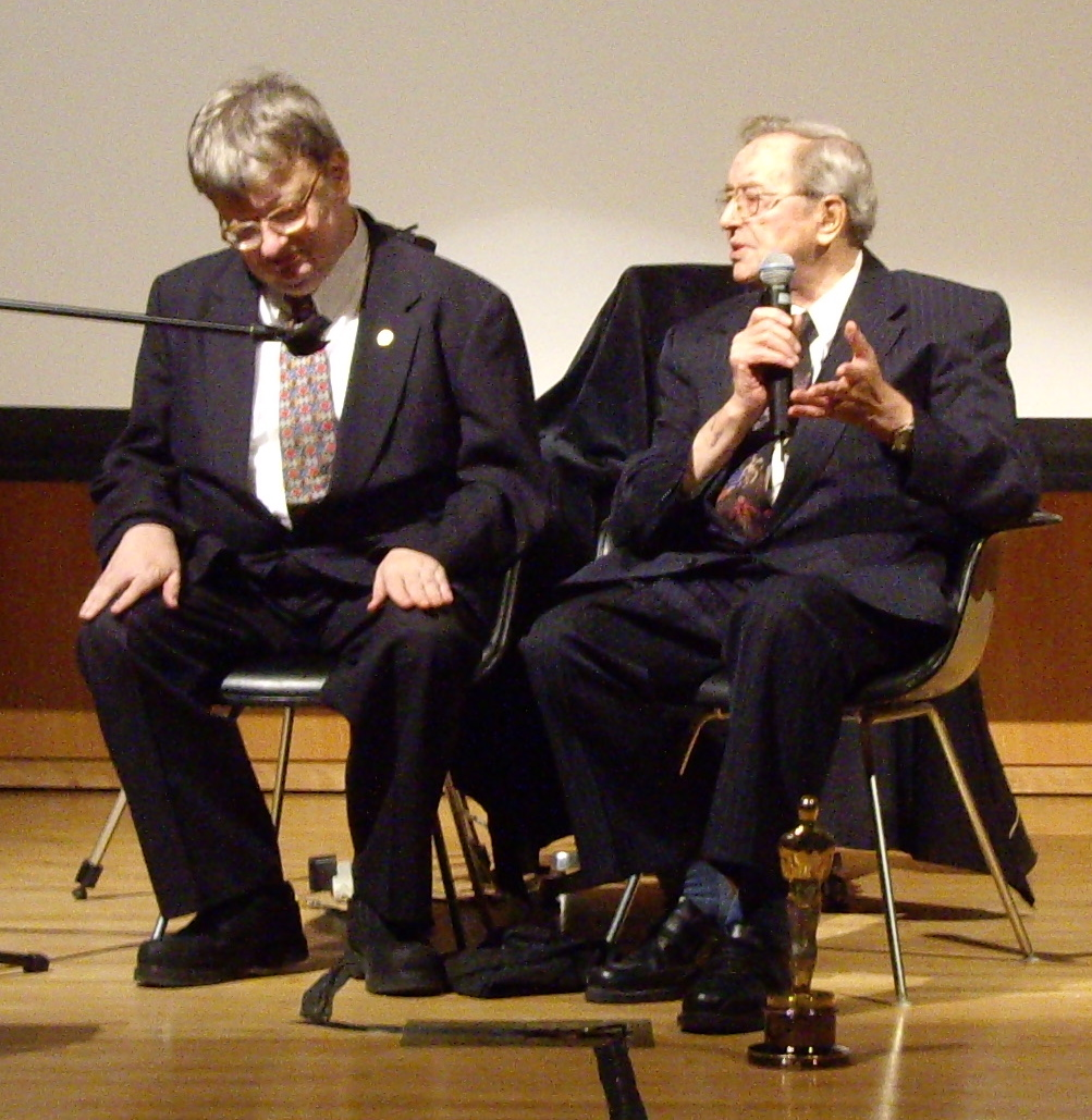 Kim Peek, Fran Peek, and the Most Loved Oscar